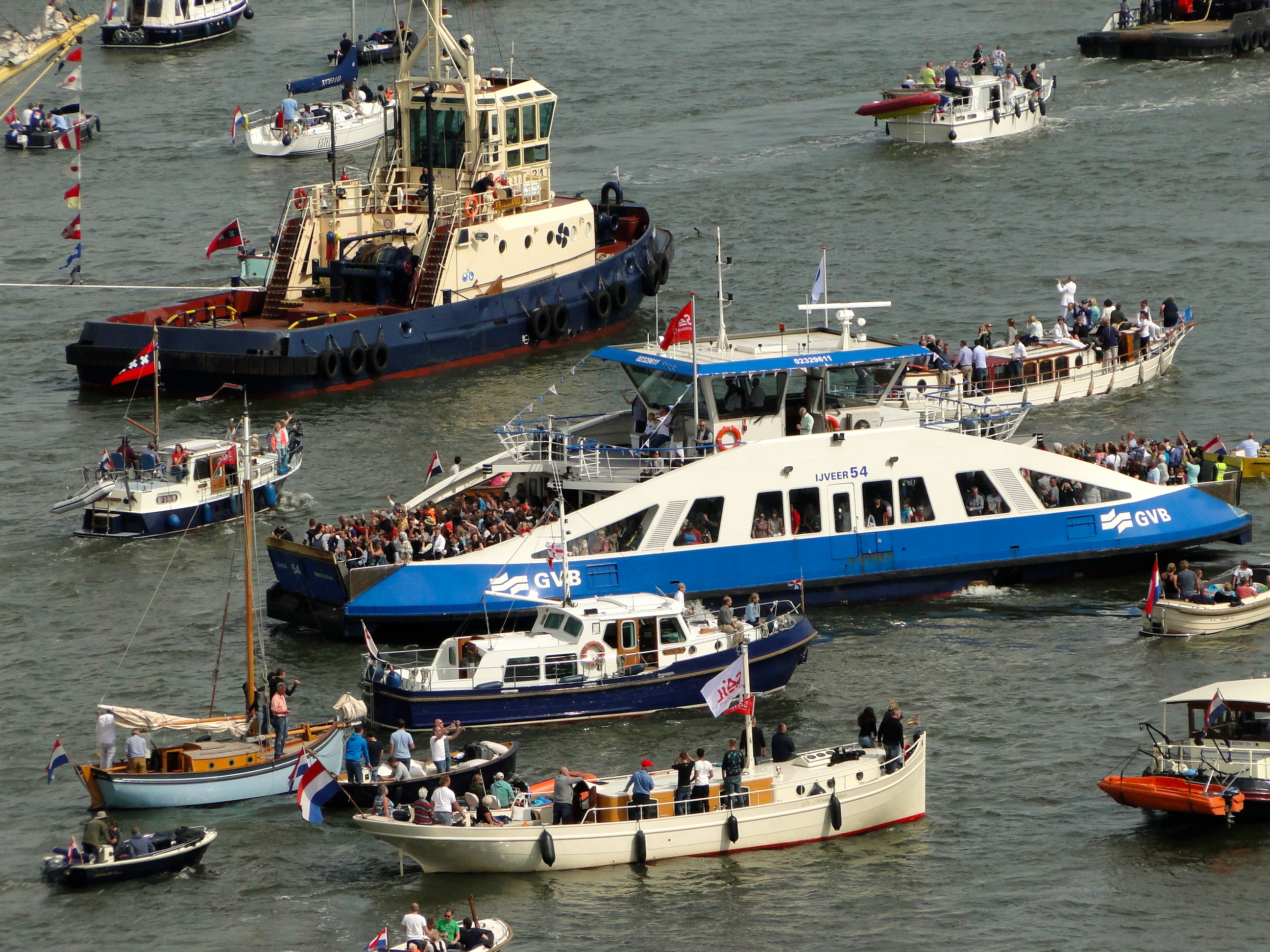 IJ Ferry passing between boats and ships